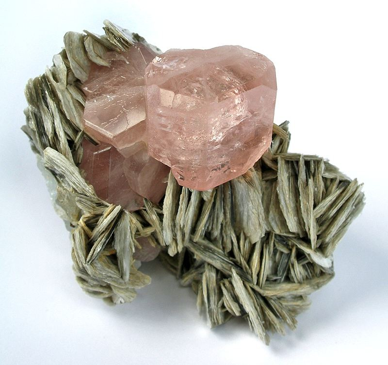 Apatite-(CaF), Muscovite Locality: Chumar Bakhoor, Hunza Valley, Gilgit District, Northern Areas, Pakistan (Locality at ) Size: 7.6 x 6.2 x 4.6 cm. From the gem pegmatites of Pakistan, this aesthetic specimen features a castle-like cluster of glassy and gemmy, pink crystals of fluorapatite to 2.0 cm in length, perched on contrasting crystals of muscovite to 1.3 cm across. The largest fluorapatite crystal is doubly terminated and almost an inch in size.